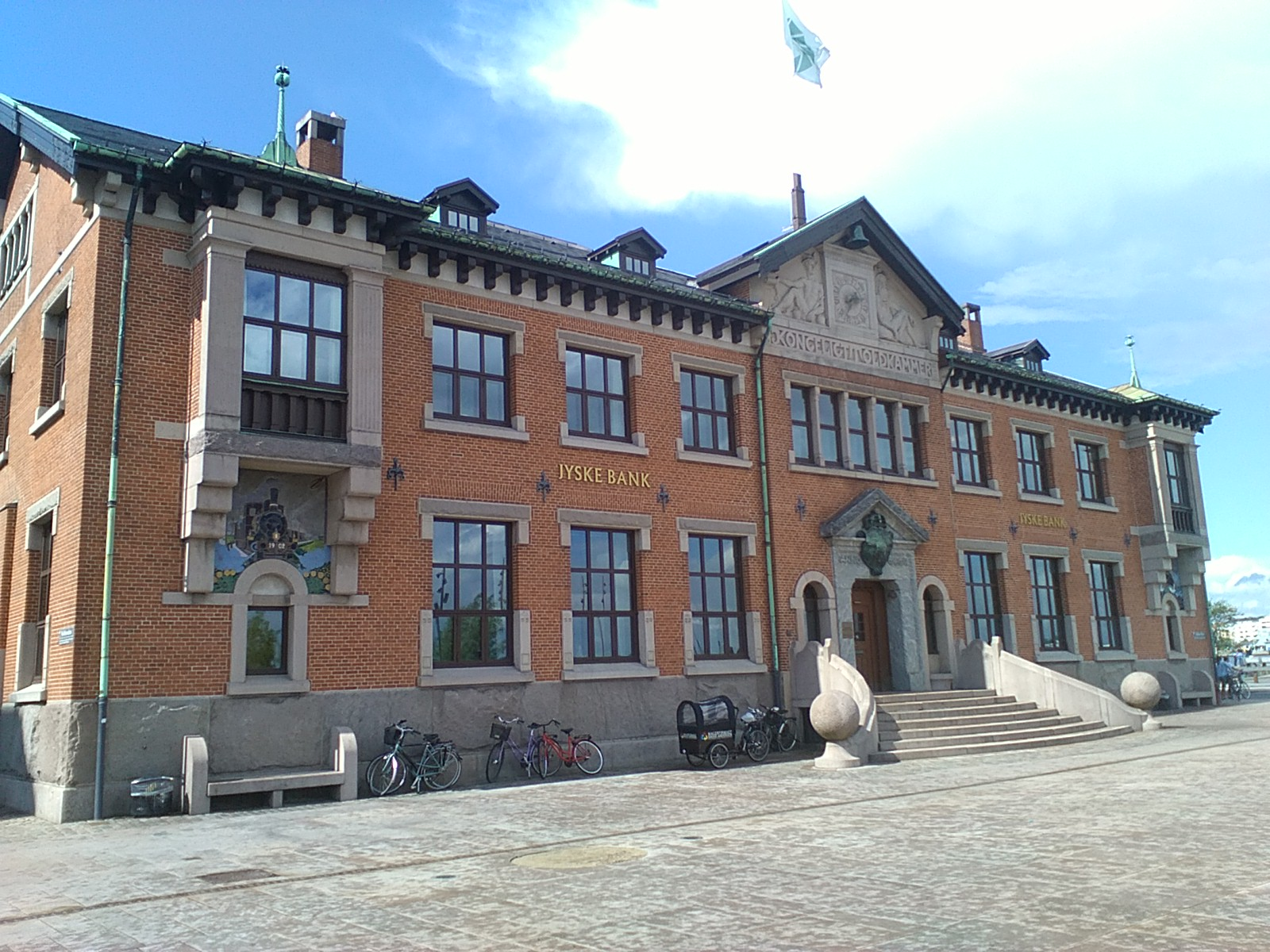 Royal customs hall in Aalborg (harbour), Denmark, architect: Hack Kampmann